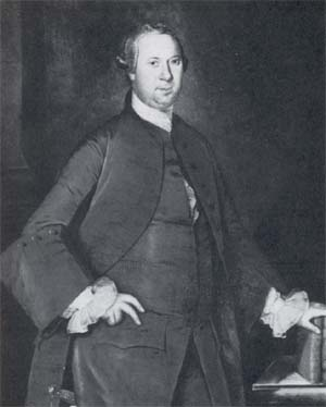 Daniel of St. Thomas Jenifer